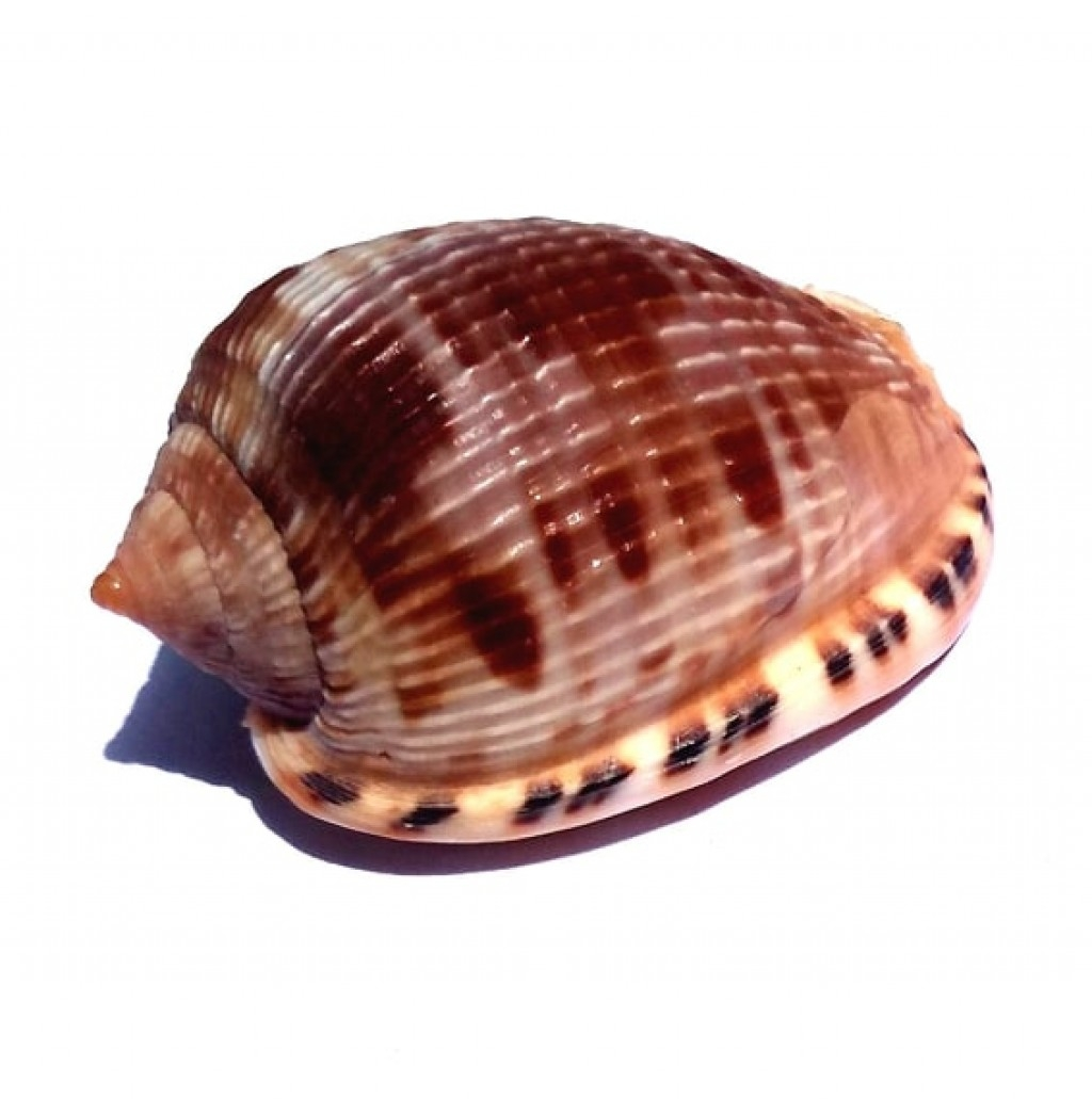 The seashell of the Cassidae mollusk Cypraecassis testiculus (Linnaeus, 1758)[1] (upper side) collected in northeast Brazil; distributed in the shallow waters from Florida to Brazil, Atlantic islands to Western Africa. ABBOTT, R. Tucker; DANCE, S. Peter (1982). Compendium of Seashells. A color Guide to More than 4.200 of the World's Marine Shells. New York: E. P. Dutton. p. 111. 412 pp. ISBN 0-525-93269-0